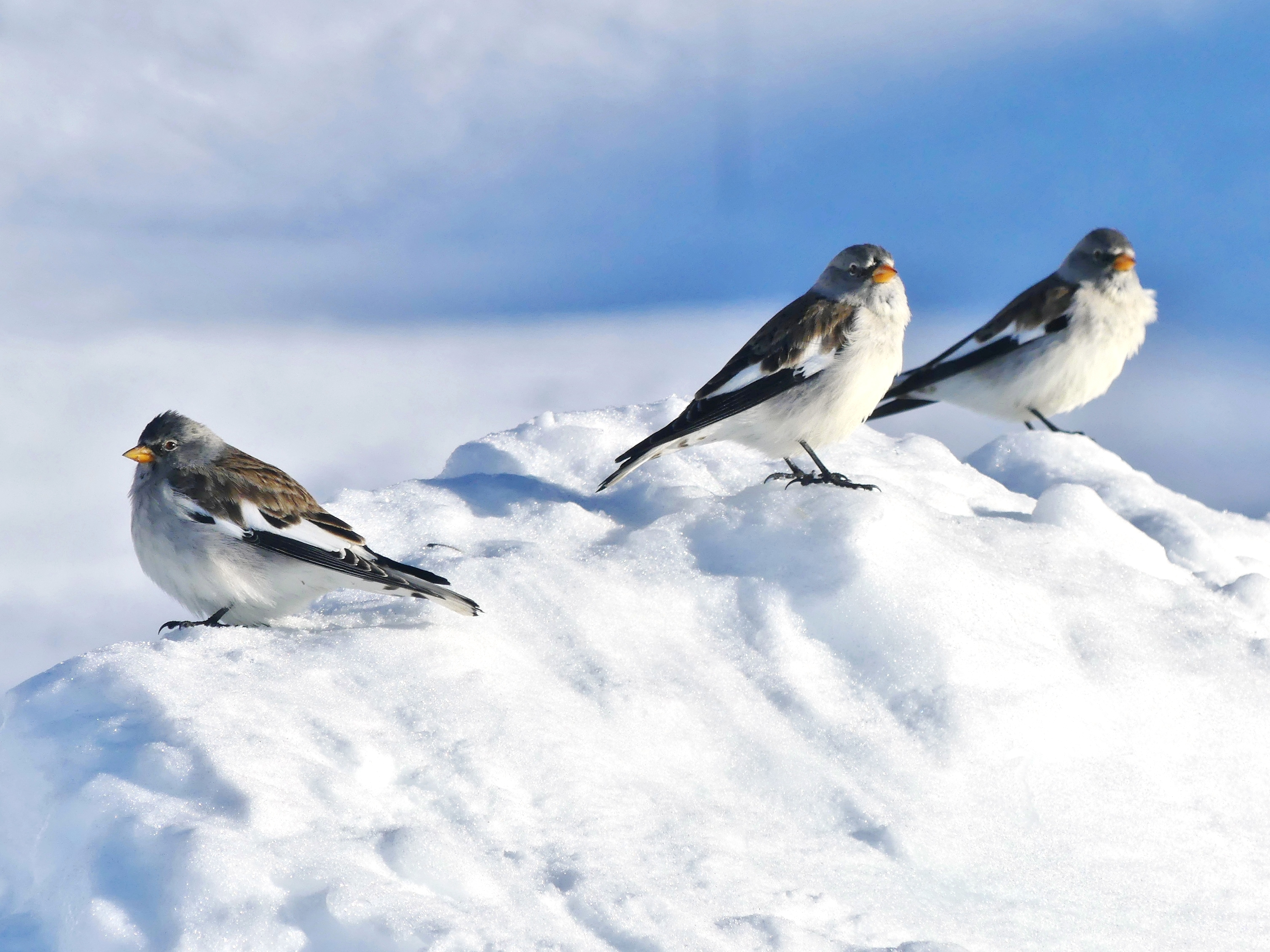 Sight of three White-winged snowfinches in the snow with skiers, at 2,000 meters high on the heights of Saint-François-Longchamp village and ski resort, in Savoie, France.